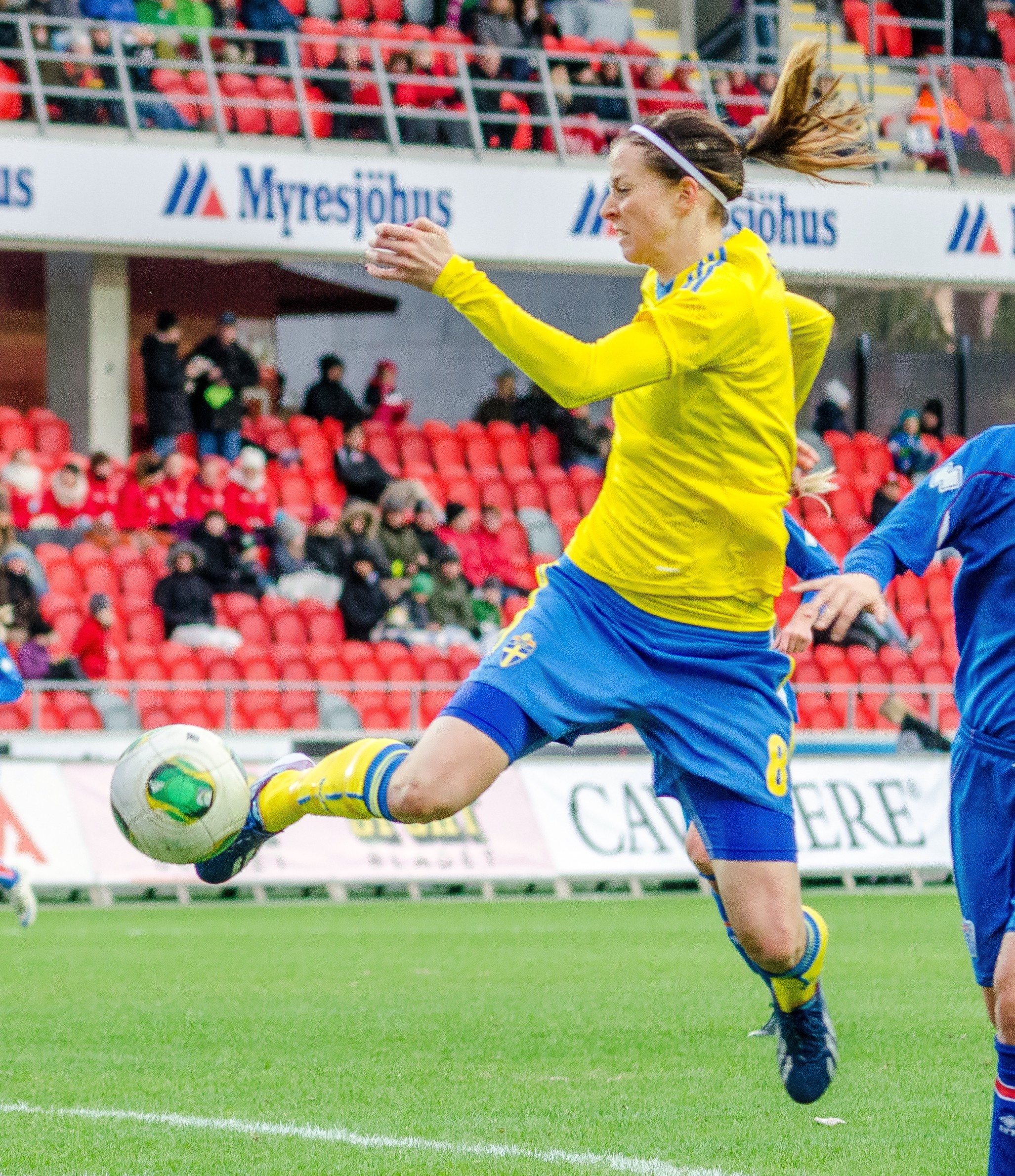 Striker Lotta Schelin playing for the Swedish Women's National team in the 2-0 victory over Iceland at Myresjöhus Arena, 6 April 2013.